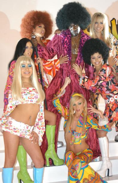 Kat, Melissa Martinez, Jasmine Byrne, Hillary Scott, John E. Depth, Victoria Sweet and Alana Evans on set Britney Rears 3 From X-Play/Hustler Video